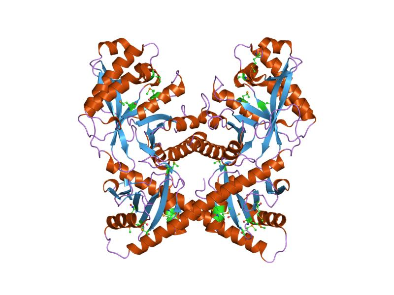 Cartoon representation of the molecular structure of protein registered with 2bas code.